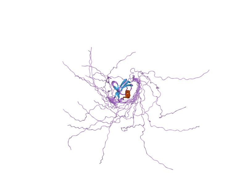 Cartoon representation of the molecular structure of protein registered with 1wj4 code.